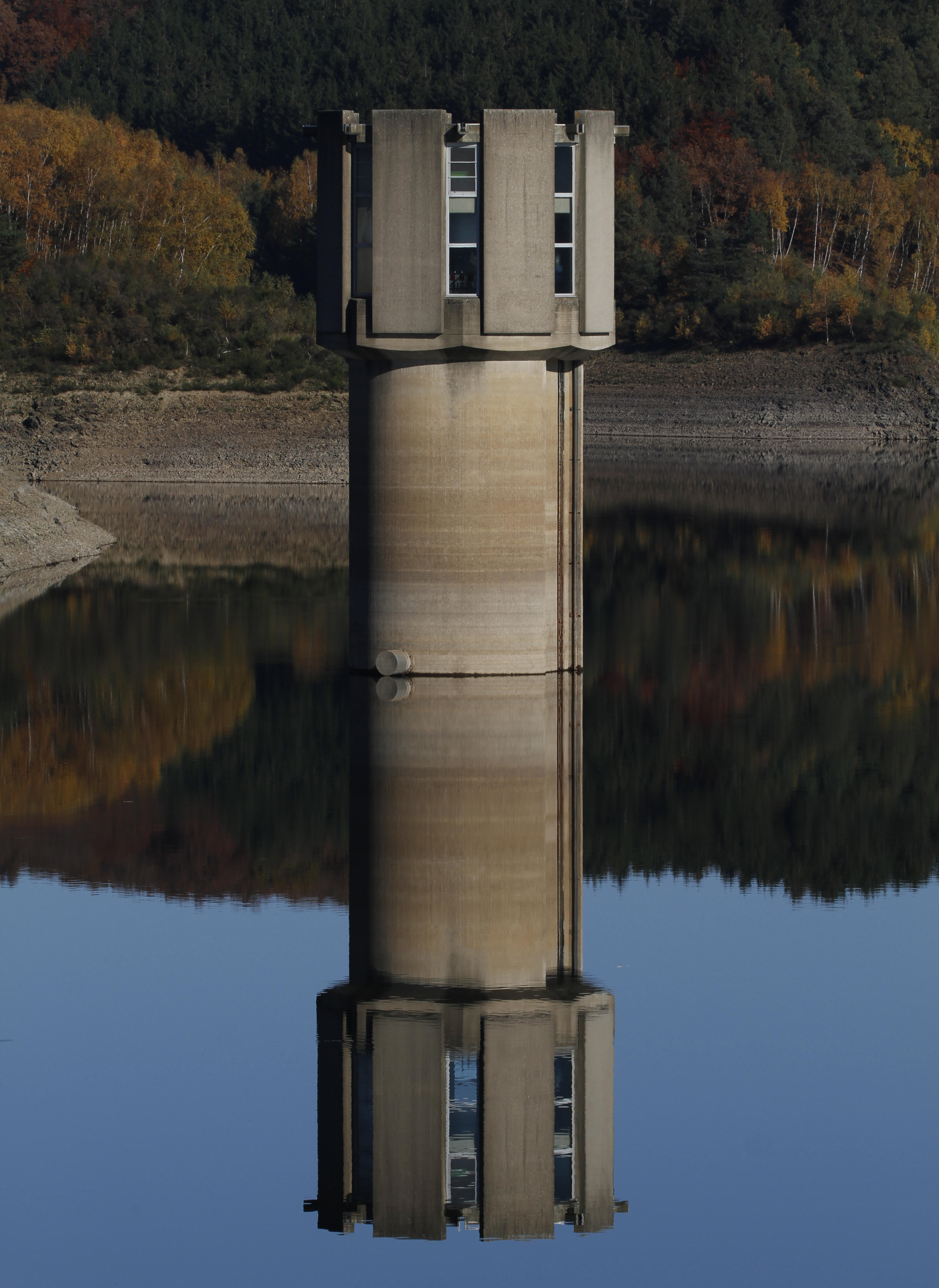 Tower for the removal of drinking water from the Wehebach dam in the Eifel